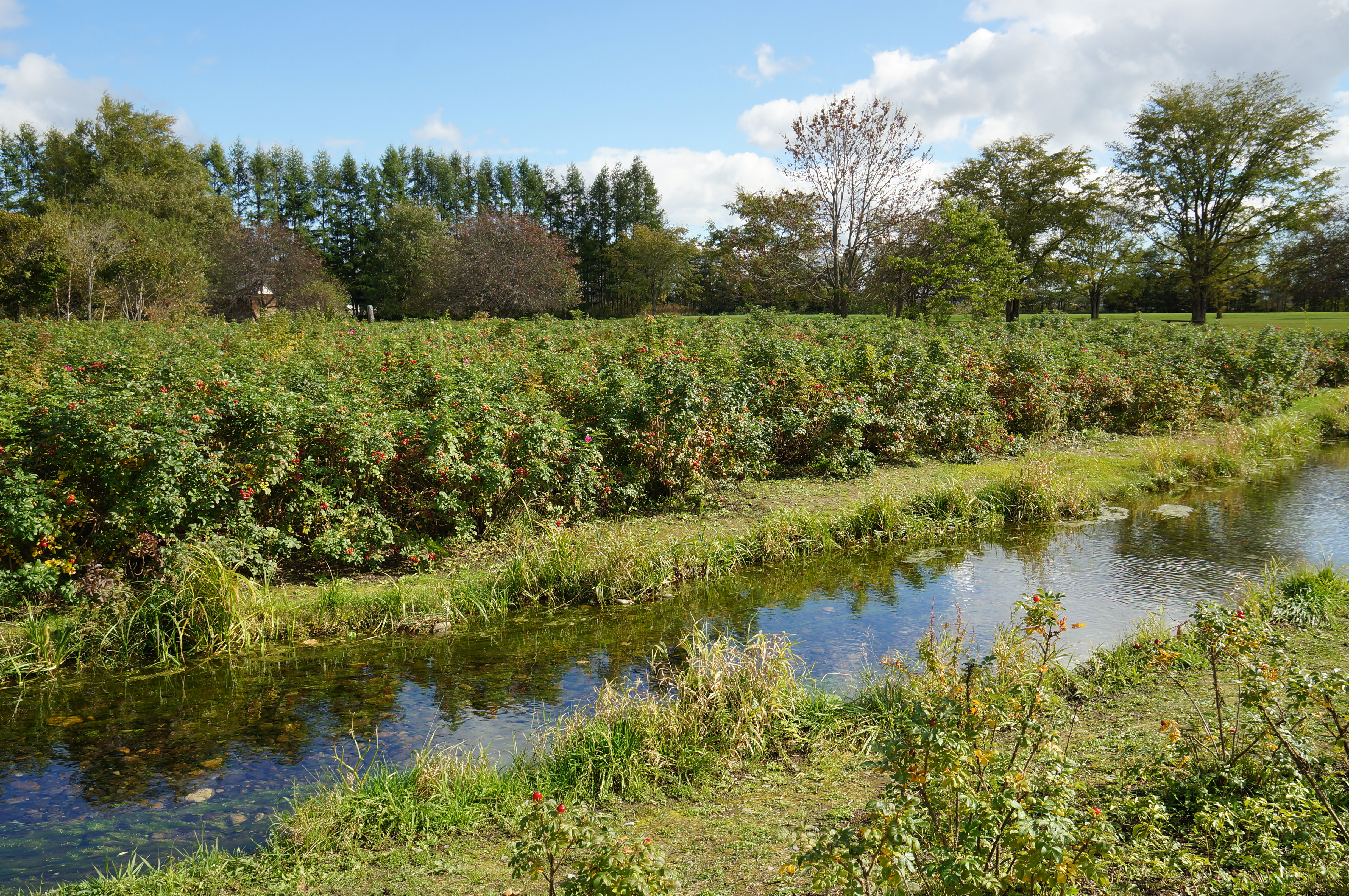 Rokka no Mori in Nakasatsunai, Hokkaido prefecture, Japan.